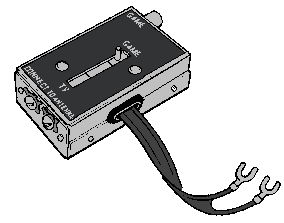 diagram of switchbox